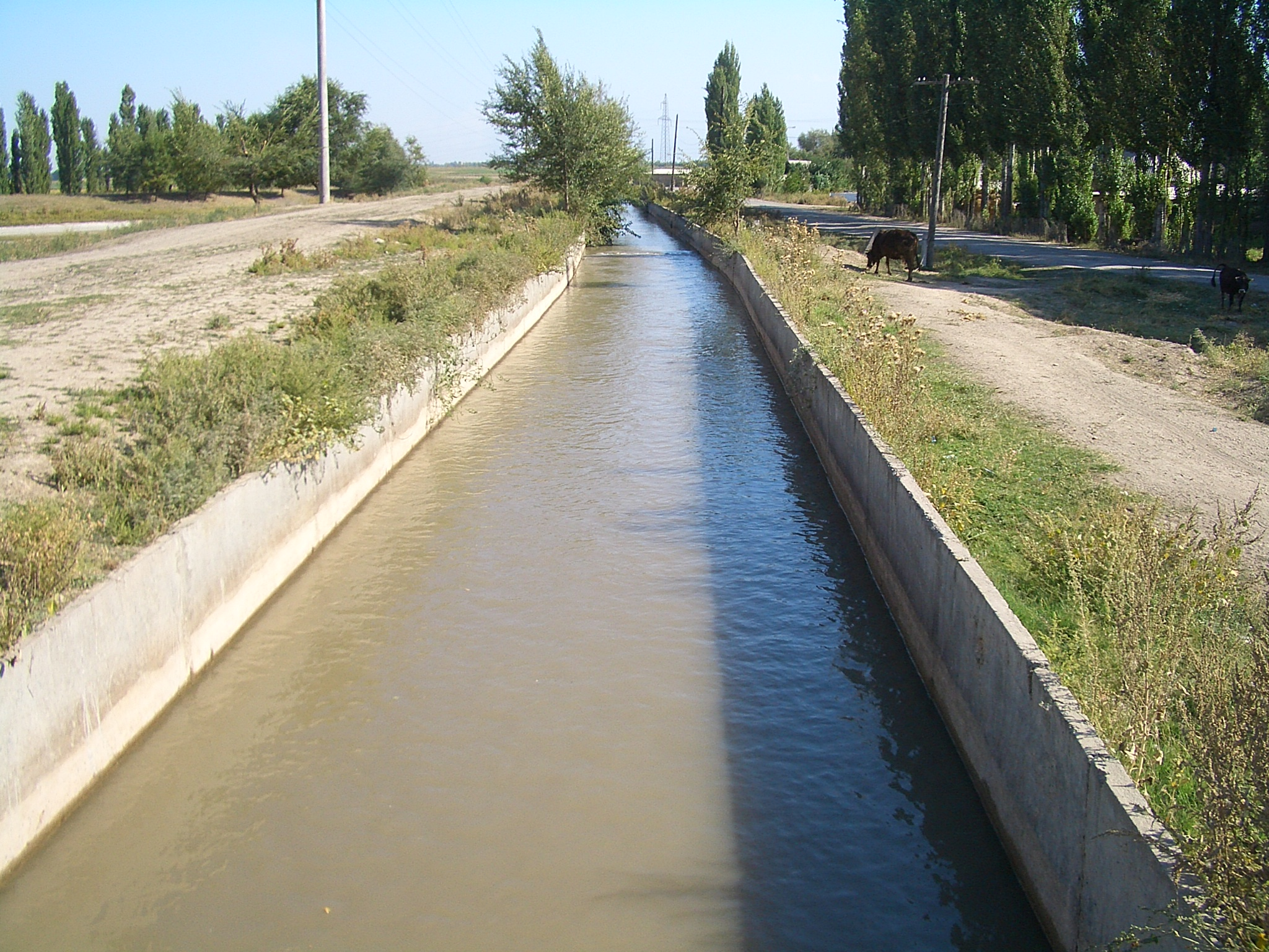 In the irrigated fields of the Chuy Valley, east of Milyanfan village, Chuy Province of Kyrgyzstan